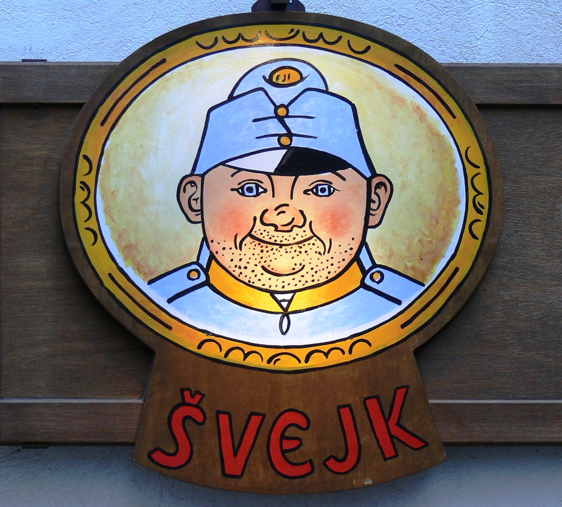 Český Krumlov. Restaurant sign "Švejk"